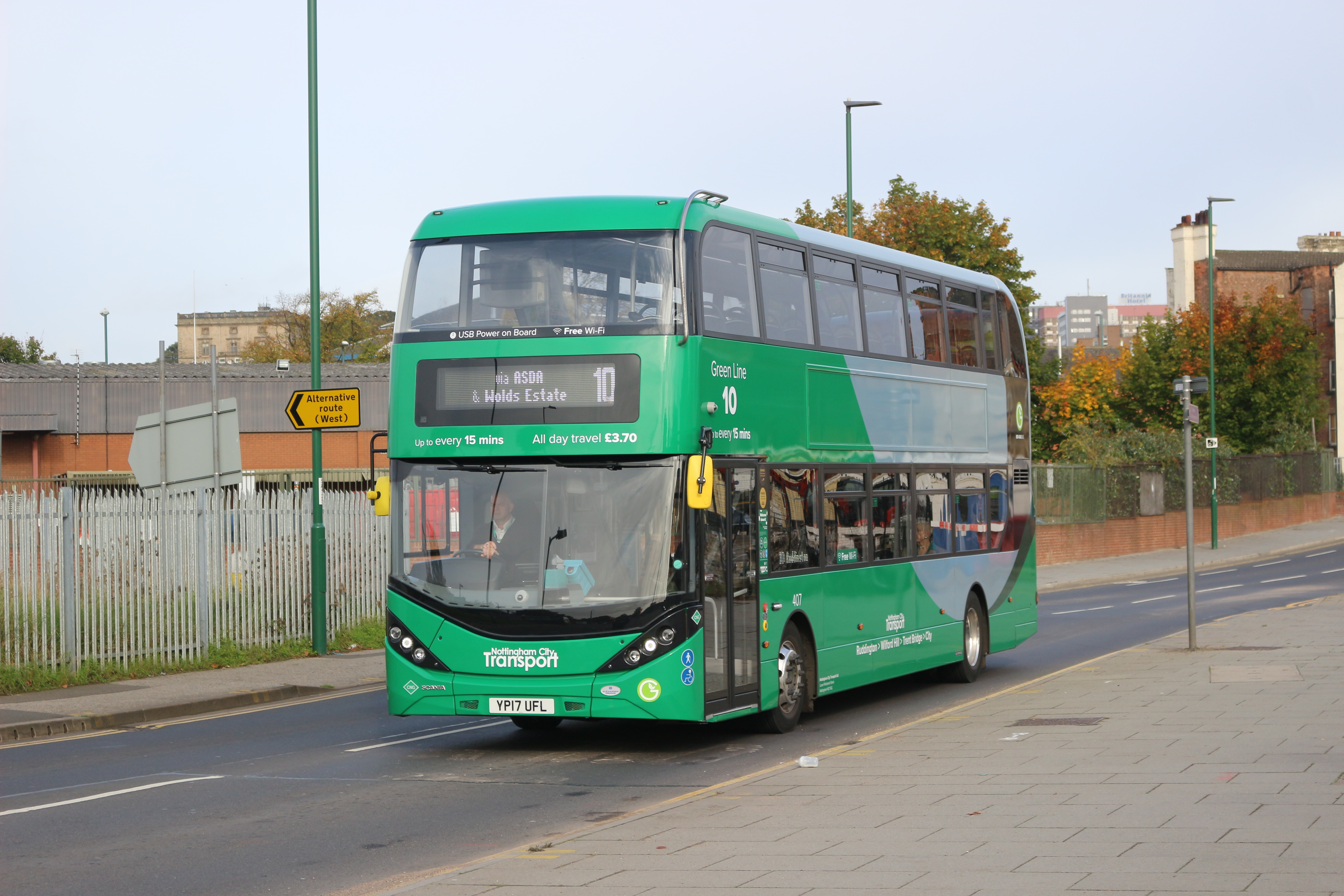 A Nottingham City Transport bus on route 10. It is a biomethane-powered Scania N280UD with Alexander Dennis Enviro400 CBG City body, registration YP17 UFL, fleet number 407, in 'Green Line 10' branded livery.